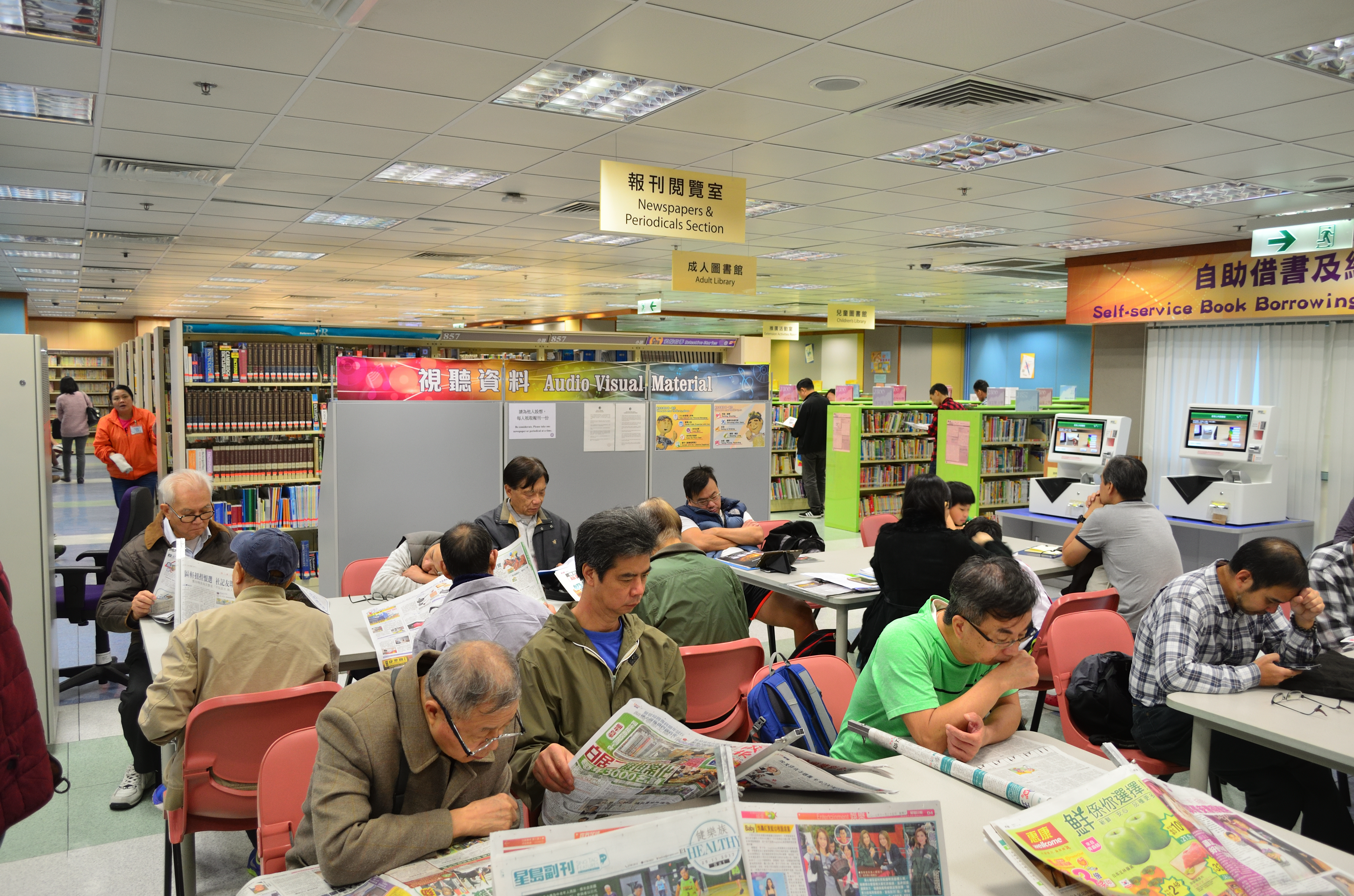 Kowloon City Public Library